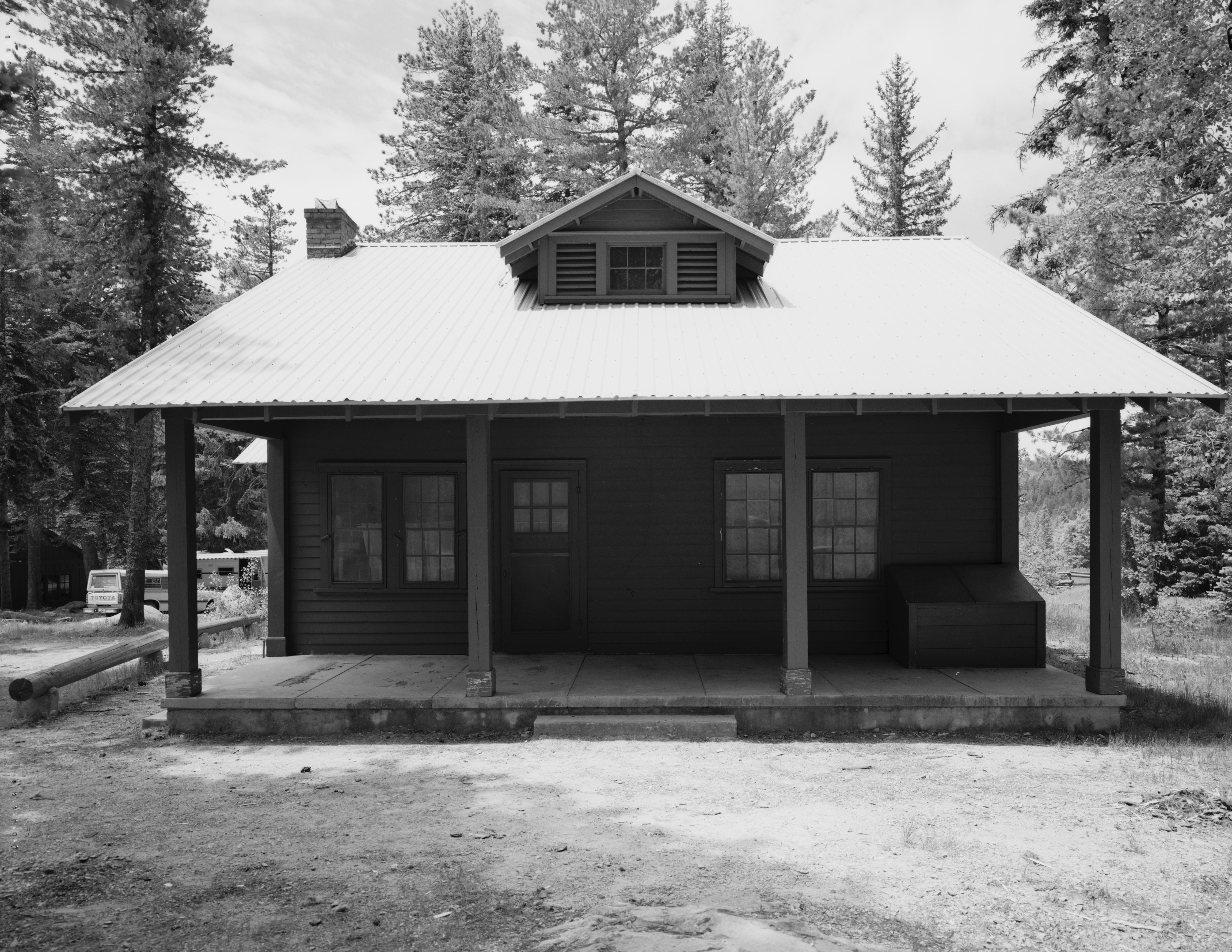 Front of the residence at the Columbine Work Station (Columbine Ranger Station), located along State Route 366 near Safford in Graham County, Arizona, United States. Built in 1935 in the Coronado National Forest, the station is listed on the National Register of Historic Places.